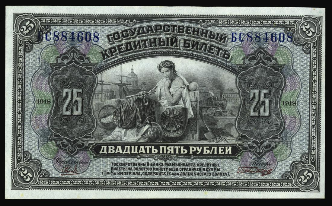 25 roubles 1918 ABNC av.jpg